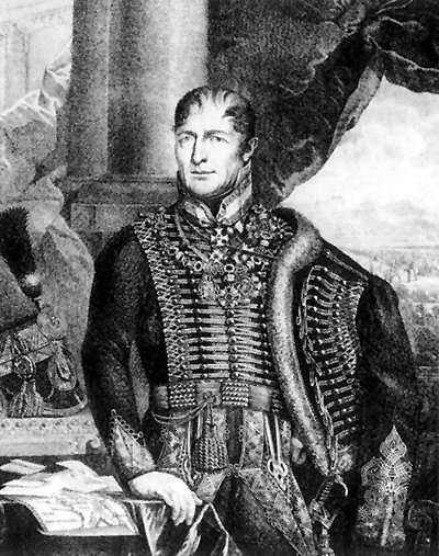 Johann Maria Philipp Frimont (1759–1831), Austrian general